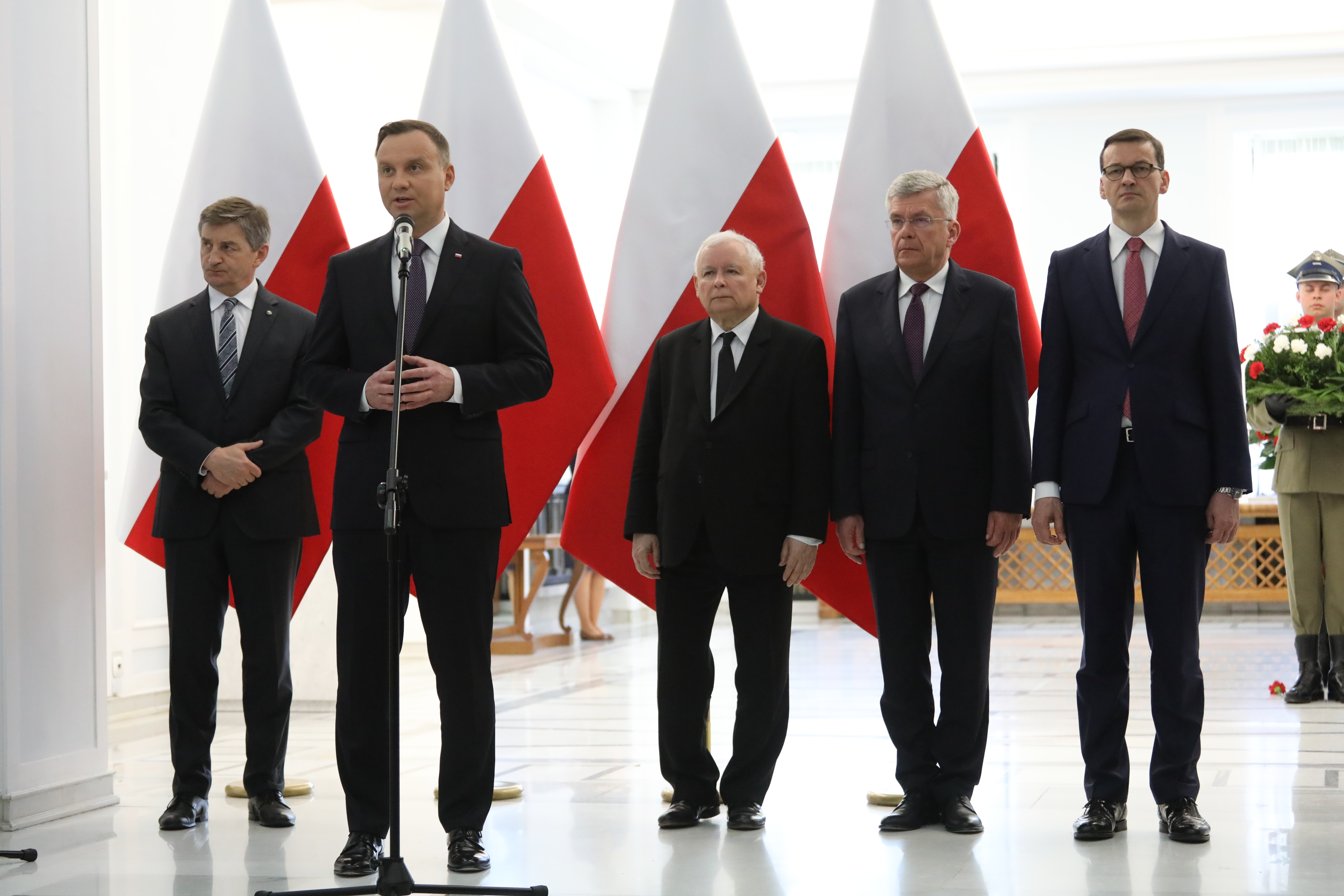 The ceremony of unveiling the plaque commemorating the late President of the Republic of Poland Lech Kaczyński.